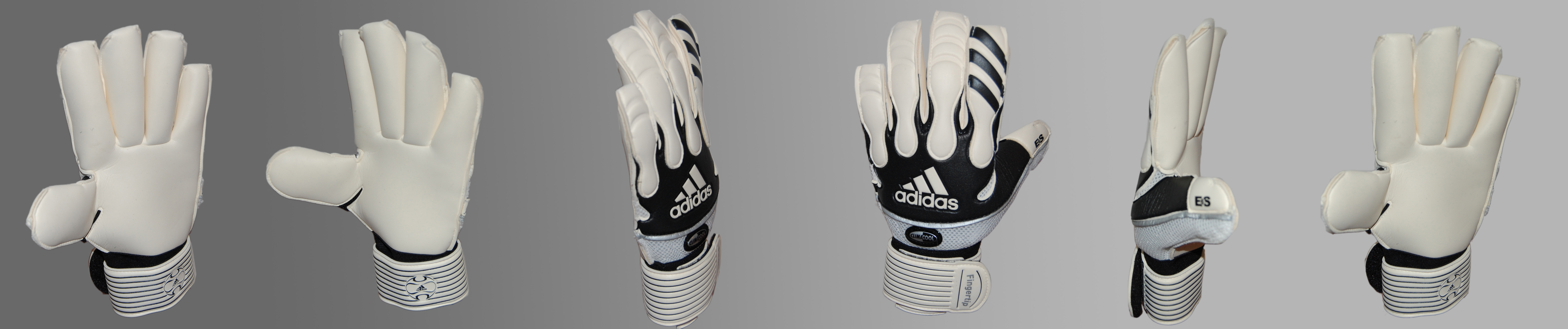 Rotating panorama of an Adidas Goalkeeper glove.